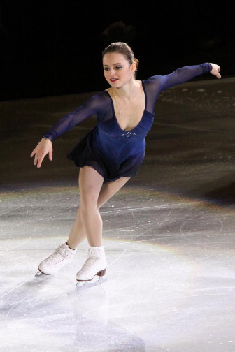 2009 Stars on Ice in Halifax - Sasha Cohen